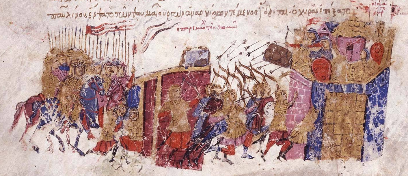 The troops of Thomas the Slav attack the quarter of Blachernae with archers and siege engines